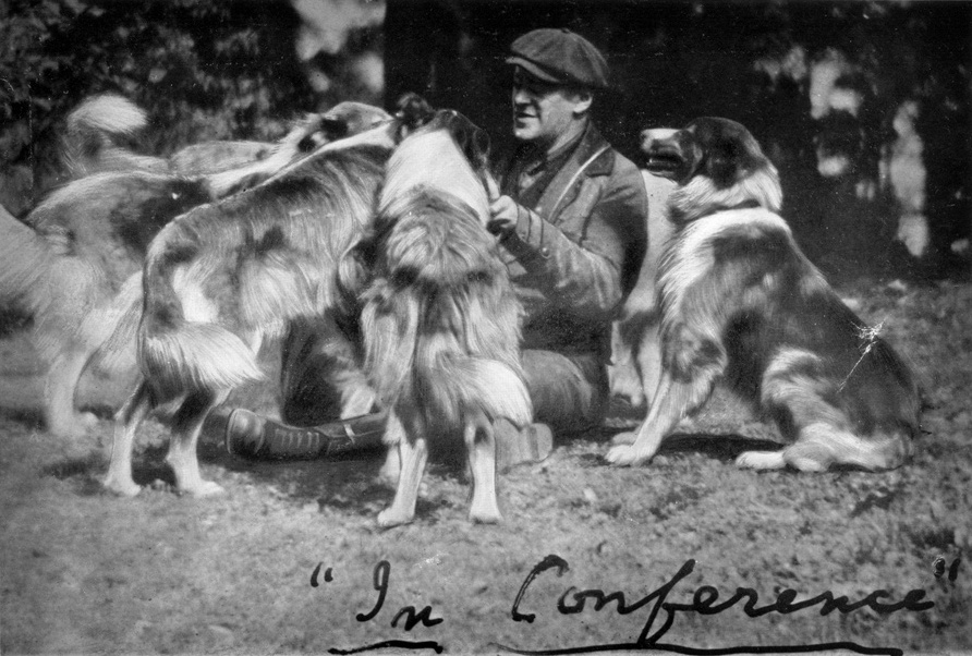 Mr. Terhune having a frolic with his dogs, the rightmost Collie is Wolf; this image was published in: Duren, George Bancroft; Dodge, Mary Mapes (ed) (March 1922). "The Sunnybank Collies". St. Nicholas 49 (5): p. 522. New York, United States: The Century Company. Retrieved on 2010-06-03.